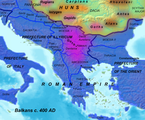 Created by HxSeek (Dr. Robert George) 2007. Based on